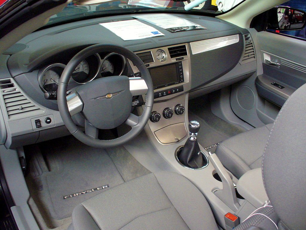 Chrysler Sebring Cabrio